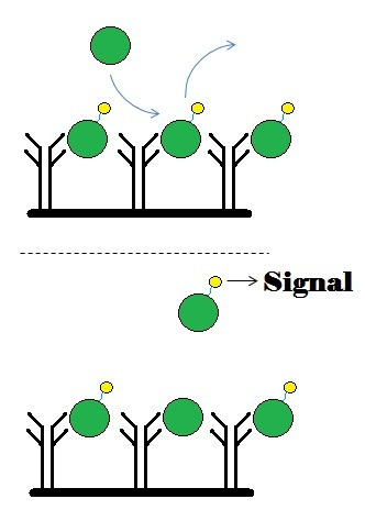 This image illustrates the components and principle behind a competitive homogeneous immunoassay.